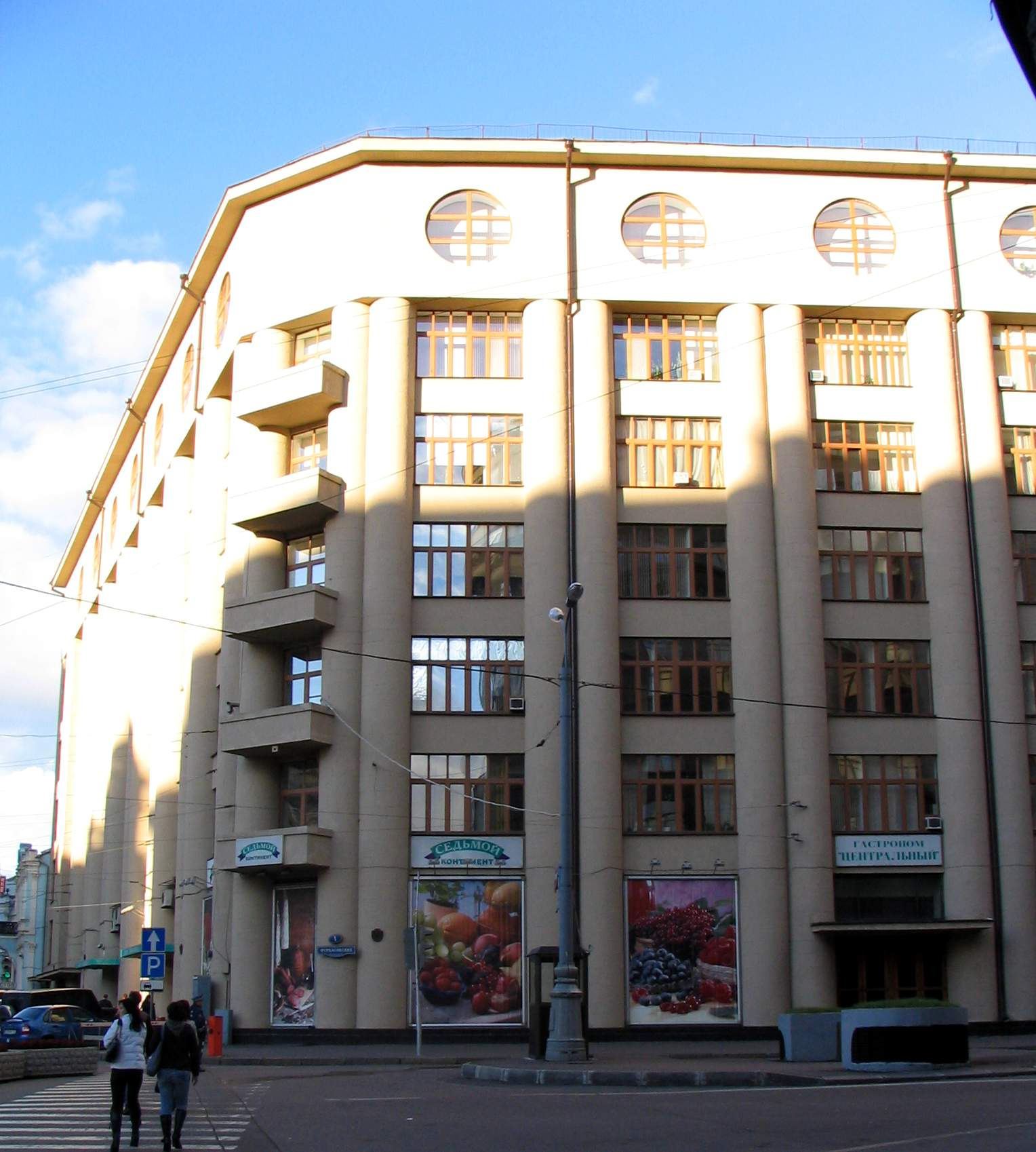 Bolshaya Lubyanka Street, 12. Dynamo building by Ivan Fomin, 1928